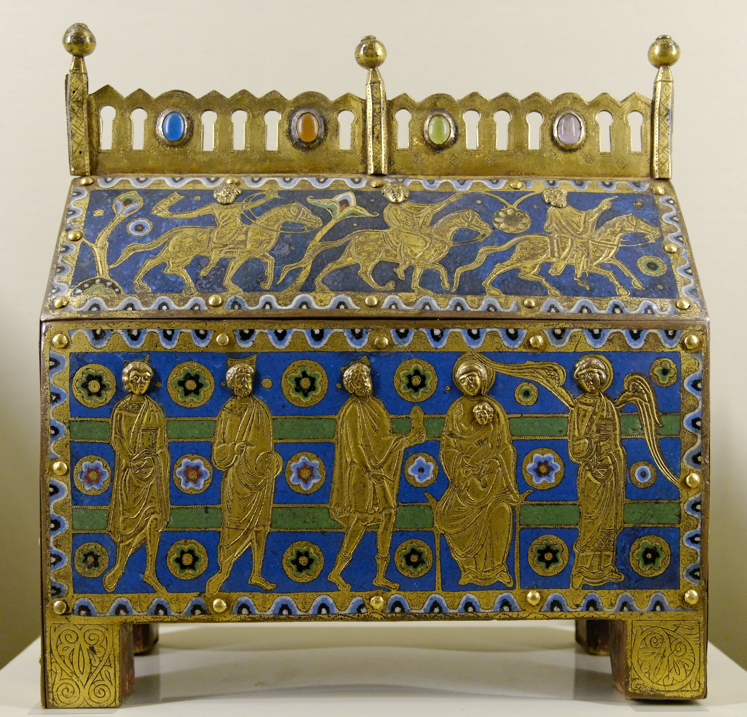 Reliquary with the journey of the Three Wise Men and the adoration of Christ. Engraved, chased, enameled and gilt champlevé copper, Limoges, ca. 1200.